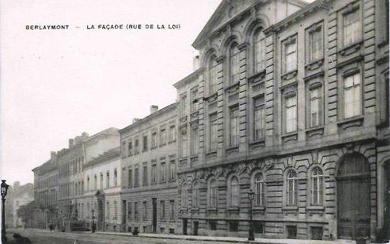 Facade of the former Berlaymon convent and boarding school in Brussels 'rue de la Loi'. around 1905